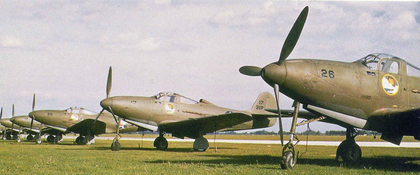 U.S. Army Air Corps Bell P-39D Airacobra fighters of the 31st Pursuit Group at Selfridge Field, Michigan (USA), in 1941.